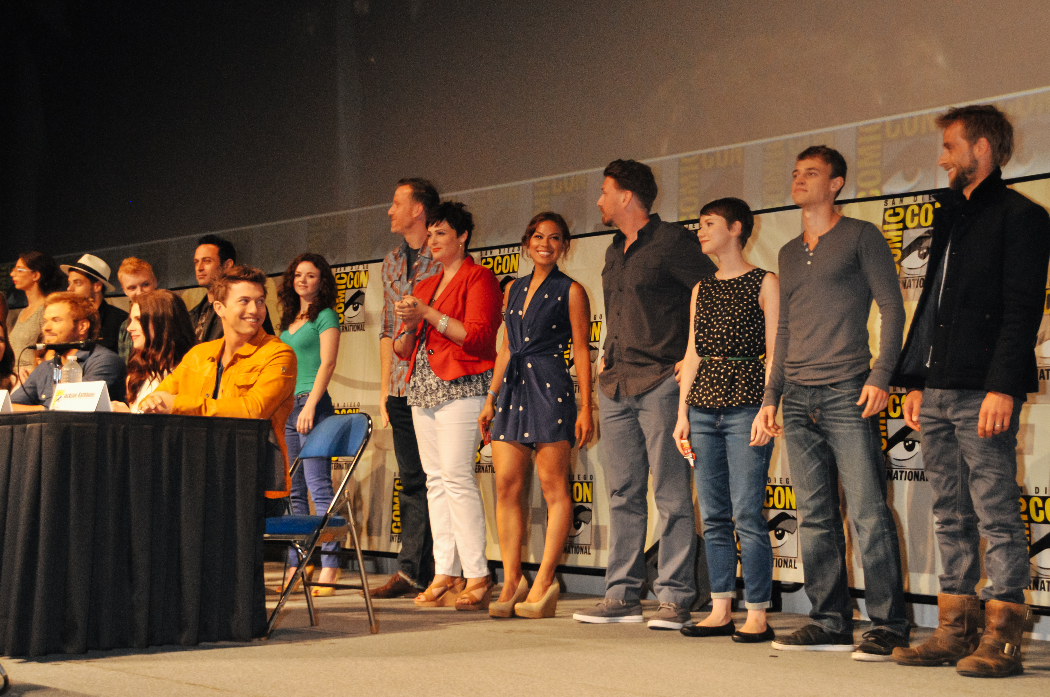 SDCC: San Diego Comic-Con International 2012